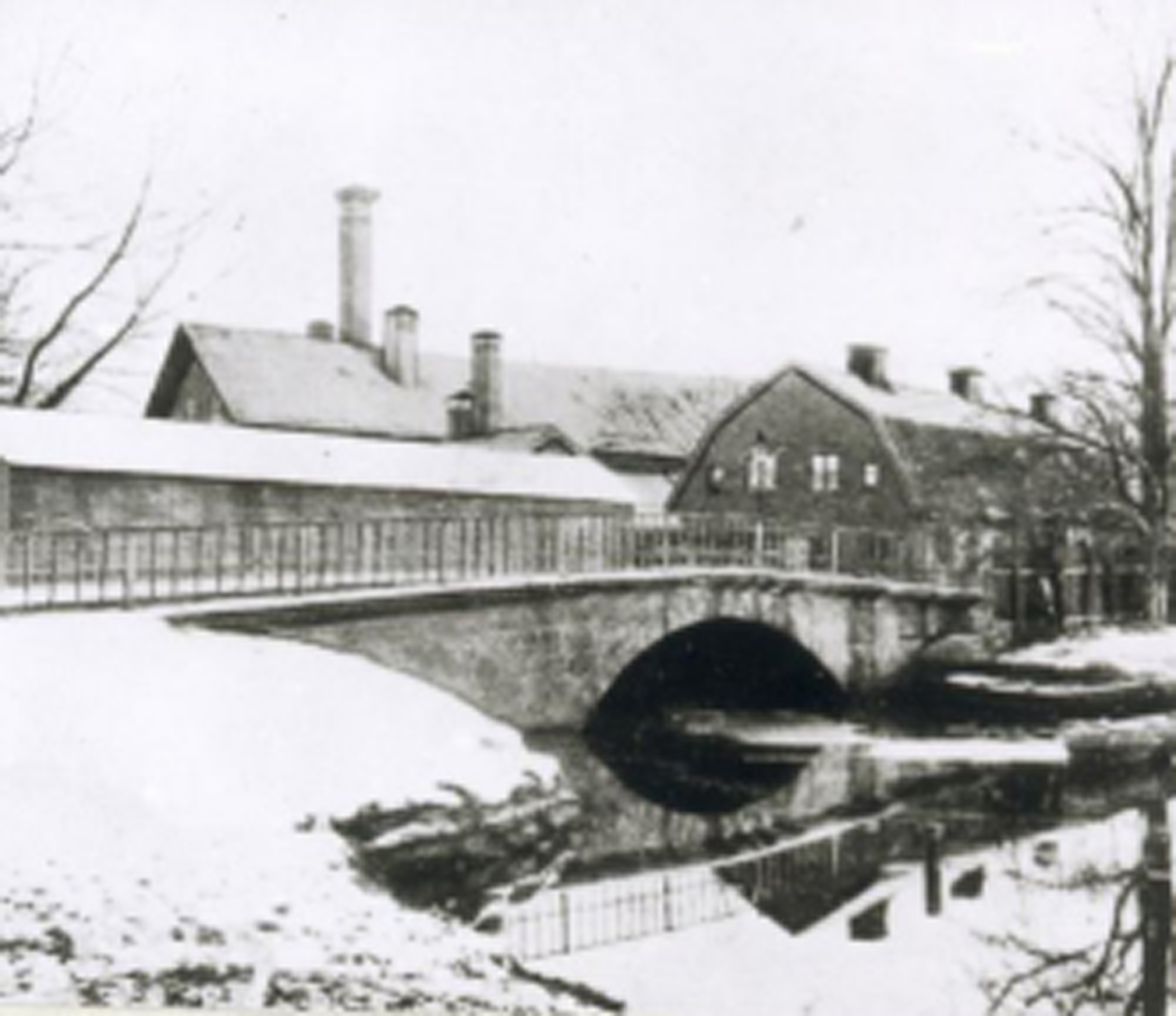 Stora Olskroken, a mansion in Gothenburg, Sweden